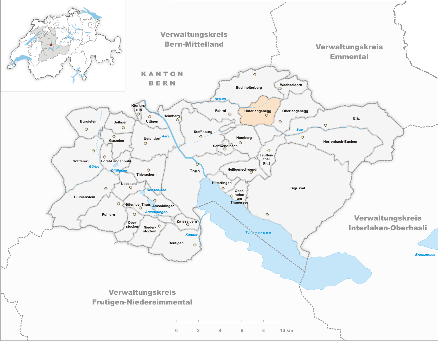 Municipality Unterlangenegg